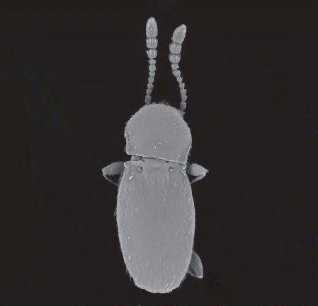 ZooKeys - Cephennium canestroi Cut-out from original (Cephennium spp.jpg) shown below